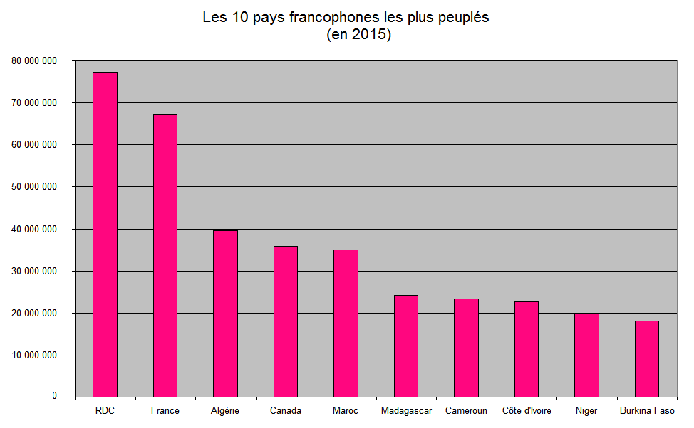 The ten most populated French-speaking countries according to the United Nations. Please note that French is not a de jure official language in Morocco and Algeria.